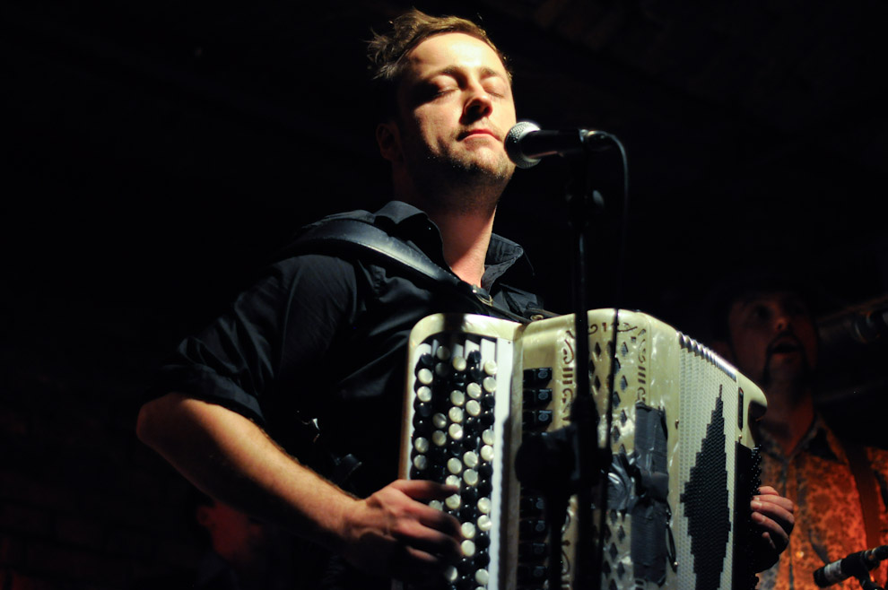 Czesław Mozil during his concert in Alchemia on 10th October 2010.